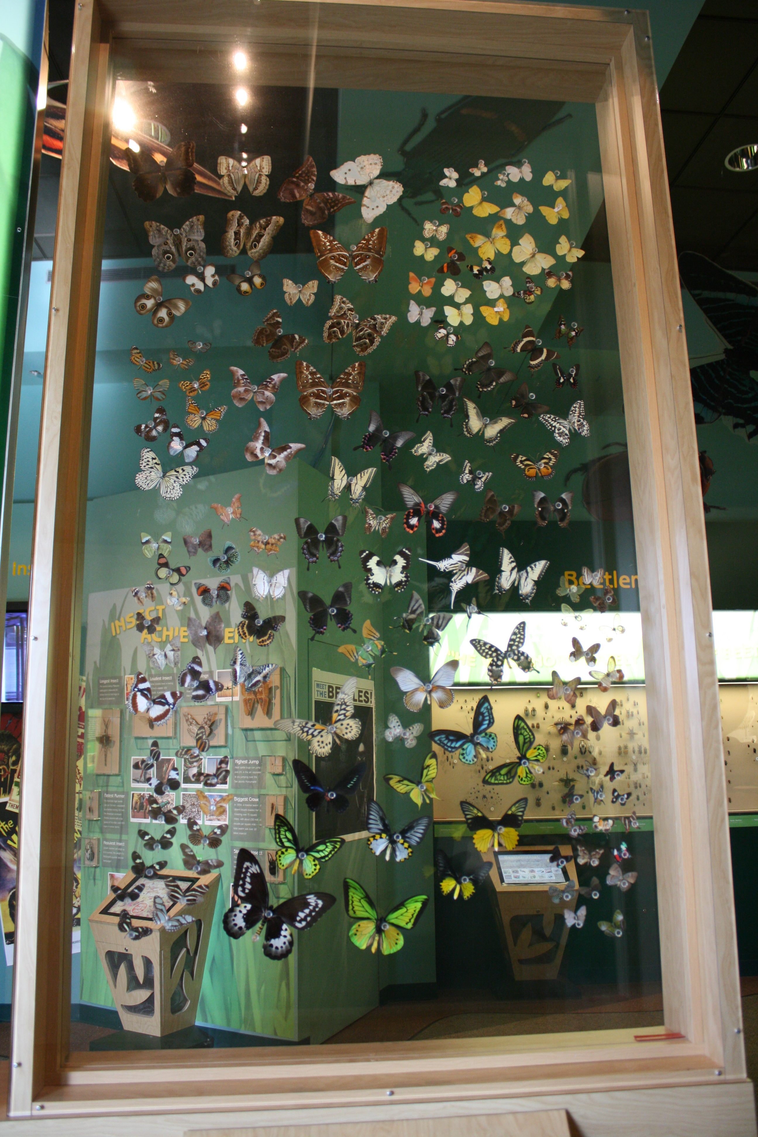 Case of butterflies in the Cockrell Butterfly Center. Wikipedia Loves Art at the Houston Museum of Natural Science This photo of item # [1] at the Houston Museum of Natural Science was contributed under the team name "The_Wookies" as part of the Wikipedia Loves Art project in February 2009. Houston Museum of Natural Science The original photograph on Flickr was taken by andytang20—please add a comment to the original Flickr page whenever a use has been made on Wikipedia or another project. Project galleries on Flickr: this institution, this team